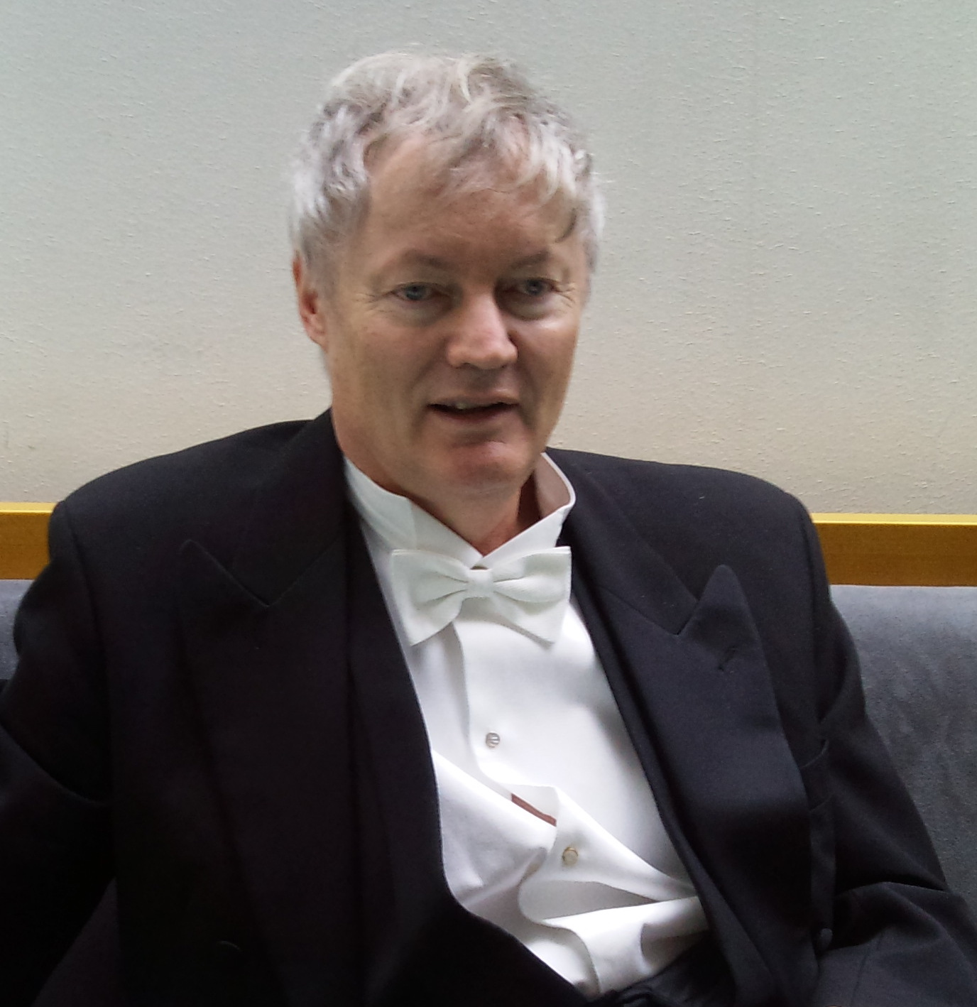 Michael Grätzel at Millennium-prize ceremony